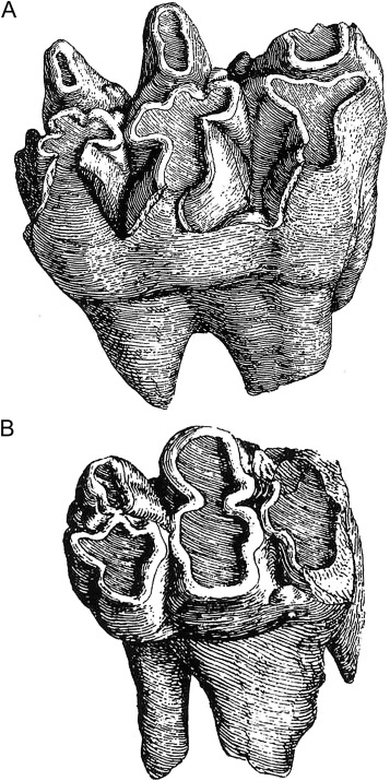 Two gomphothere teeth, from George Cuviers 1806 paper "Sur différentes dents du genre des mastodontes, mais d'espèces moindres que celle de l'Ohio, trouvées en plusieurs lieux des deux continents" in the "Annales du Museum d'Histoire naturelle" A is “mastodonte des cordillères” B is “mastodonte humboldien”